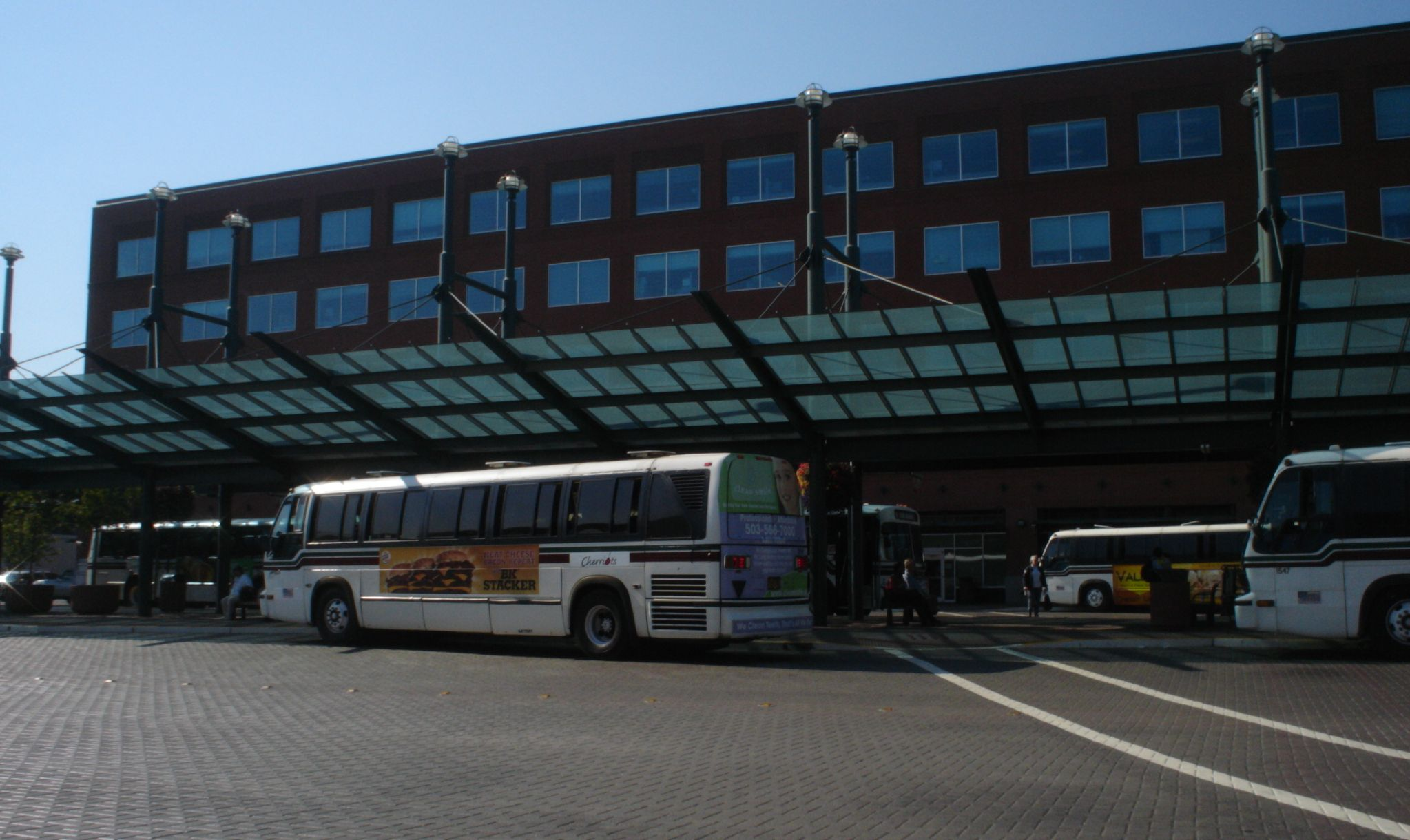 Courthouse Square - Transit mall in Salem, OR. Photo taken 28 August 2006.